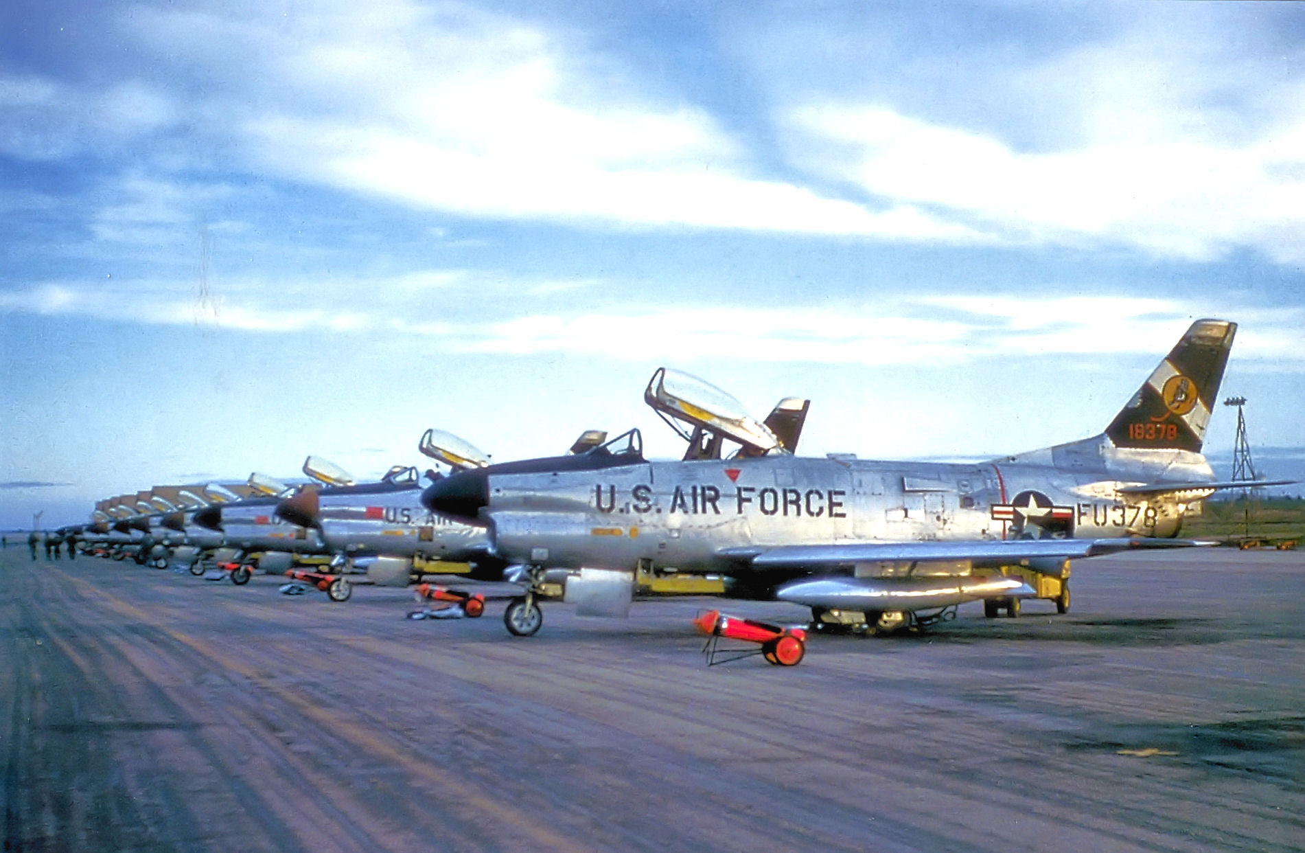 357th Fighter-Interceptor Squadron row of F-86Ds North American F-86D-35-NA Sabre - 51-8378 in foreground